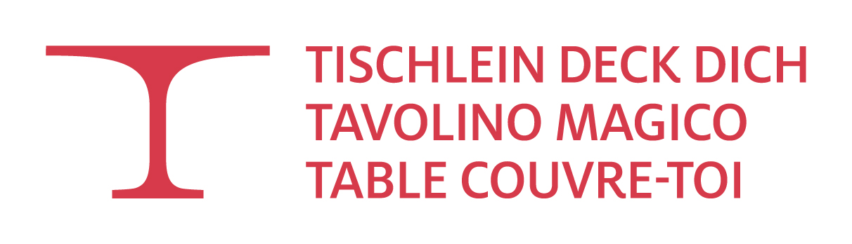 Logo Tischlein deck dich